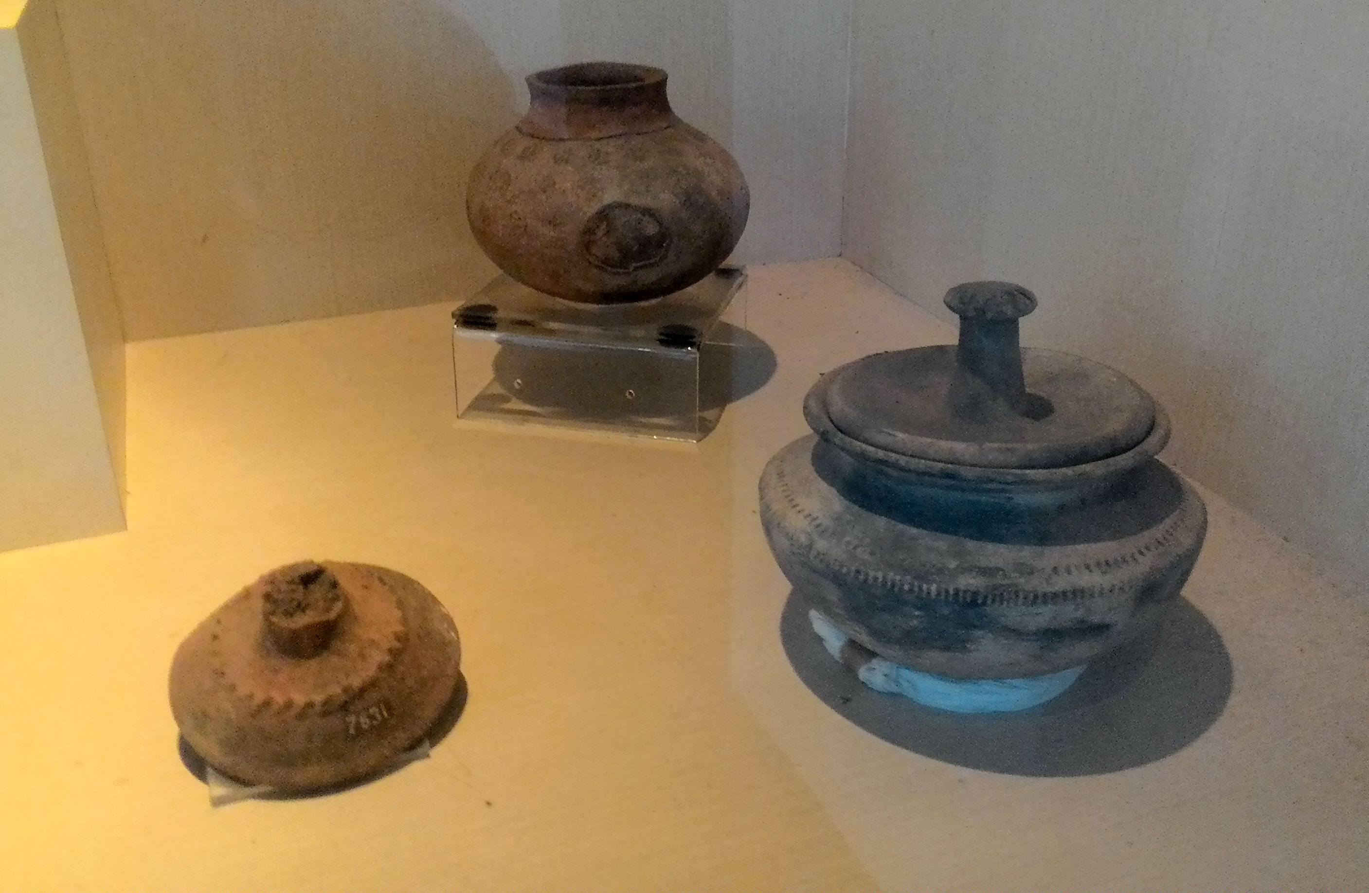 Buni culture pottery, coastal West Java c. 400 BCE to 100 CE . Collection of National Museum of Indonesia, Jakarta.